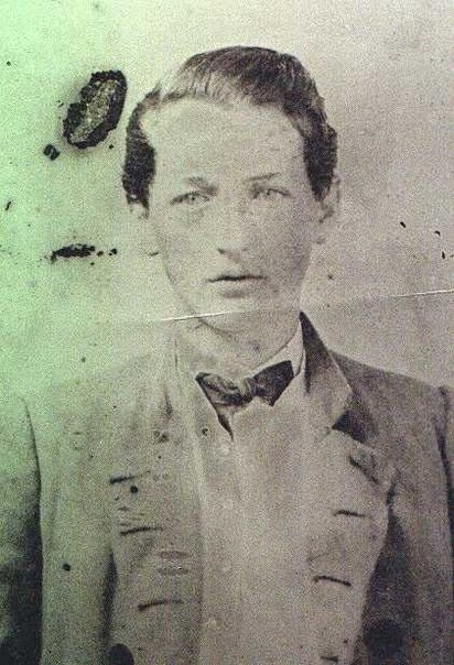 Capt. William Owen Baldwin, Jr. (1845-1864), Company B, 22nd Alabama Infantry, the son of William Owen Baldwin, M. D. Note: Left the state university at Tuscaloosa to enlist as a private in the Twenty-second Alabama Regiment, was appointed sergeant major, lieutenant, then captain, before he was eighteen years old, was known as the “boy captain” of Deas’ brigade, killed in the battle of Franklin, November 30, 1864